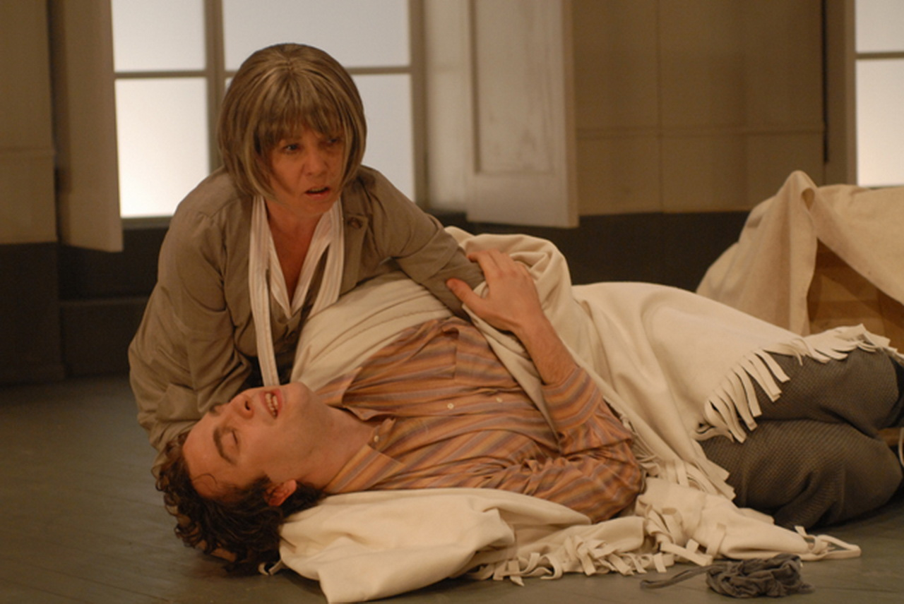 Ghosts (Gengangere), a play by Henrik Ibsen, directed by Ksenija Krnajski, actors: Ksenija Martinov Pavlović, Igor Pavlović, SNT, Novi Sad, 2006/2007. Srpski (latinica): Aveti, drama Henrika Ibzena u režiji Ksenije Krnajski, glumci: Ksenija Martinov Pavlović, Igor Pavlović, SNP, Novi Sad, 2006/2007. Српски (ћирилица): Авети, драма Хенрика Ибзена у режији Ксеније Крнајски, глумци: Ксенија Мартинов Павловић, Игор Павловић, СНП, Нови Сад, 2006/2007.